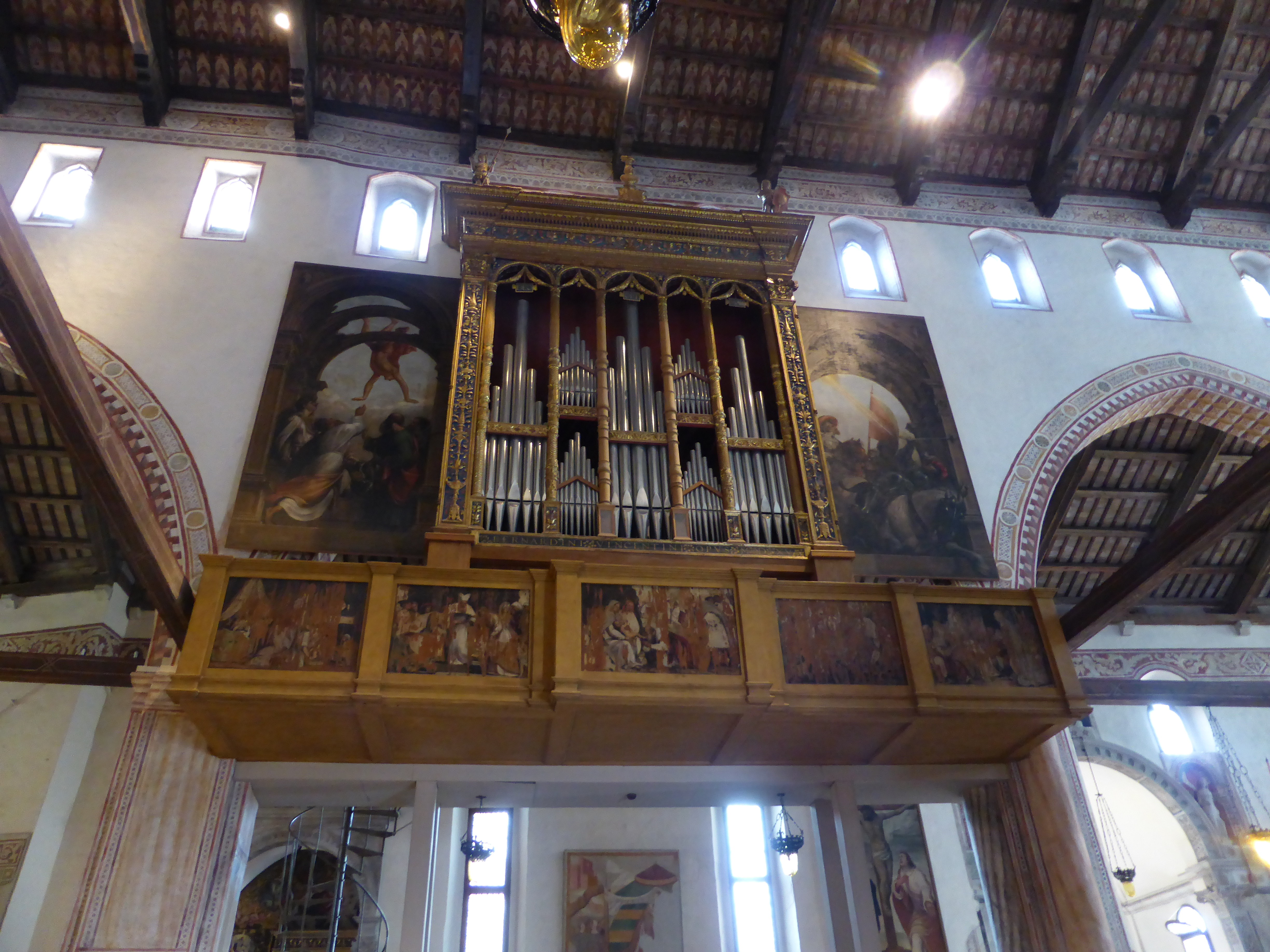 View of the organ in the Spilimbergo's Cathedral